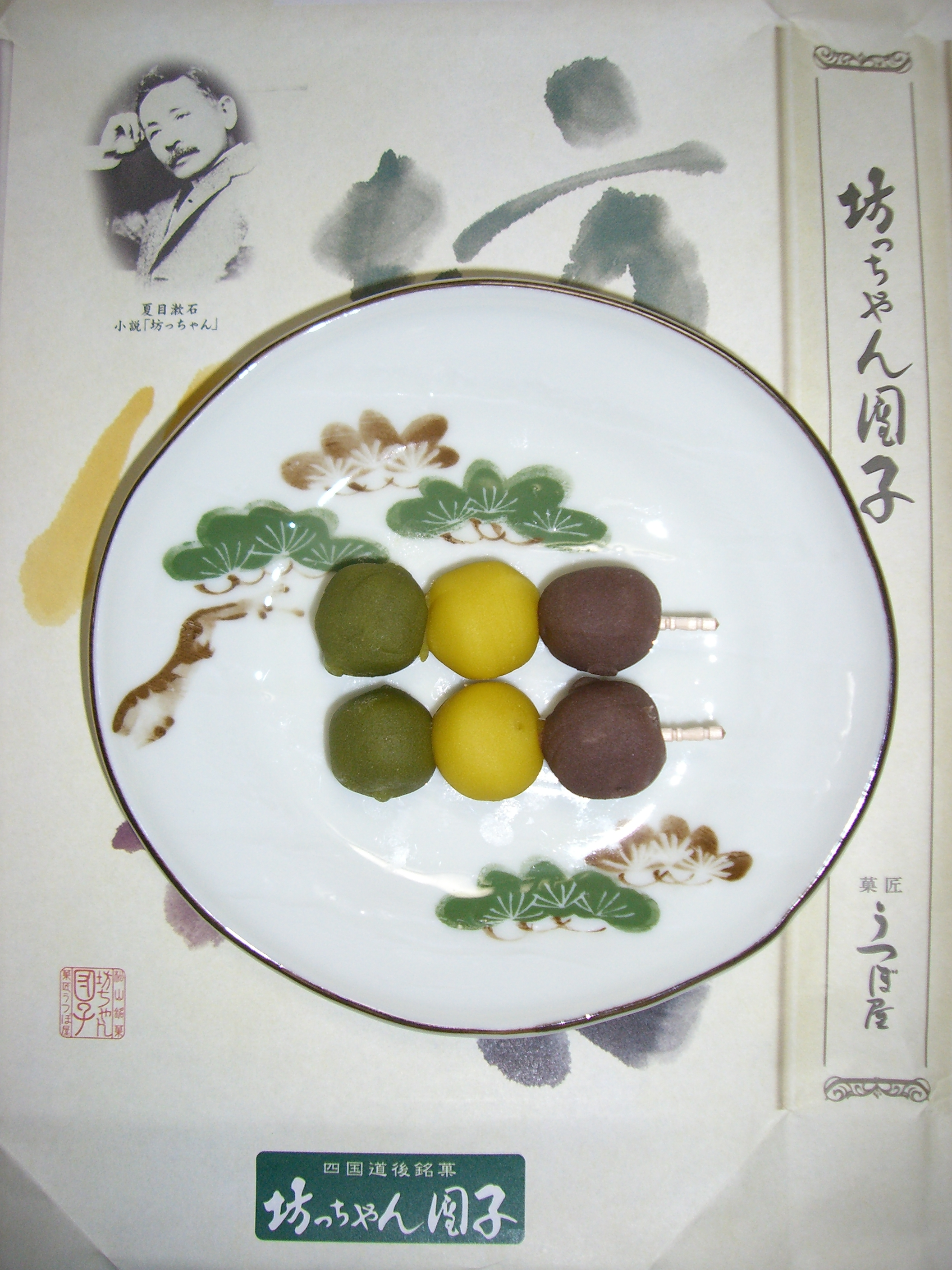 “Botchan Dango (dumpling)” This lovely dumpling has sweet bean paste colored by adzuki beans, eggs,and powdered green tea in it. Since the dumpling appeared in the novel of Botchan written by Soseki Natsume, this has been called "Botchan Dango (dumpling).